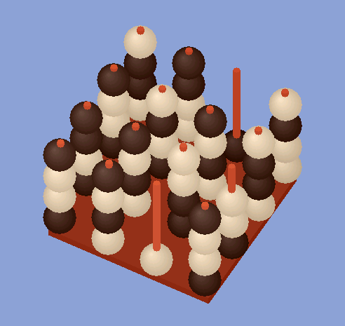 Zugzwang in a game of Score 4. Screenshot from a Java Applet written by Mussklprozz.